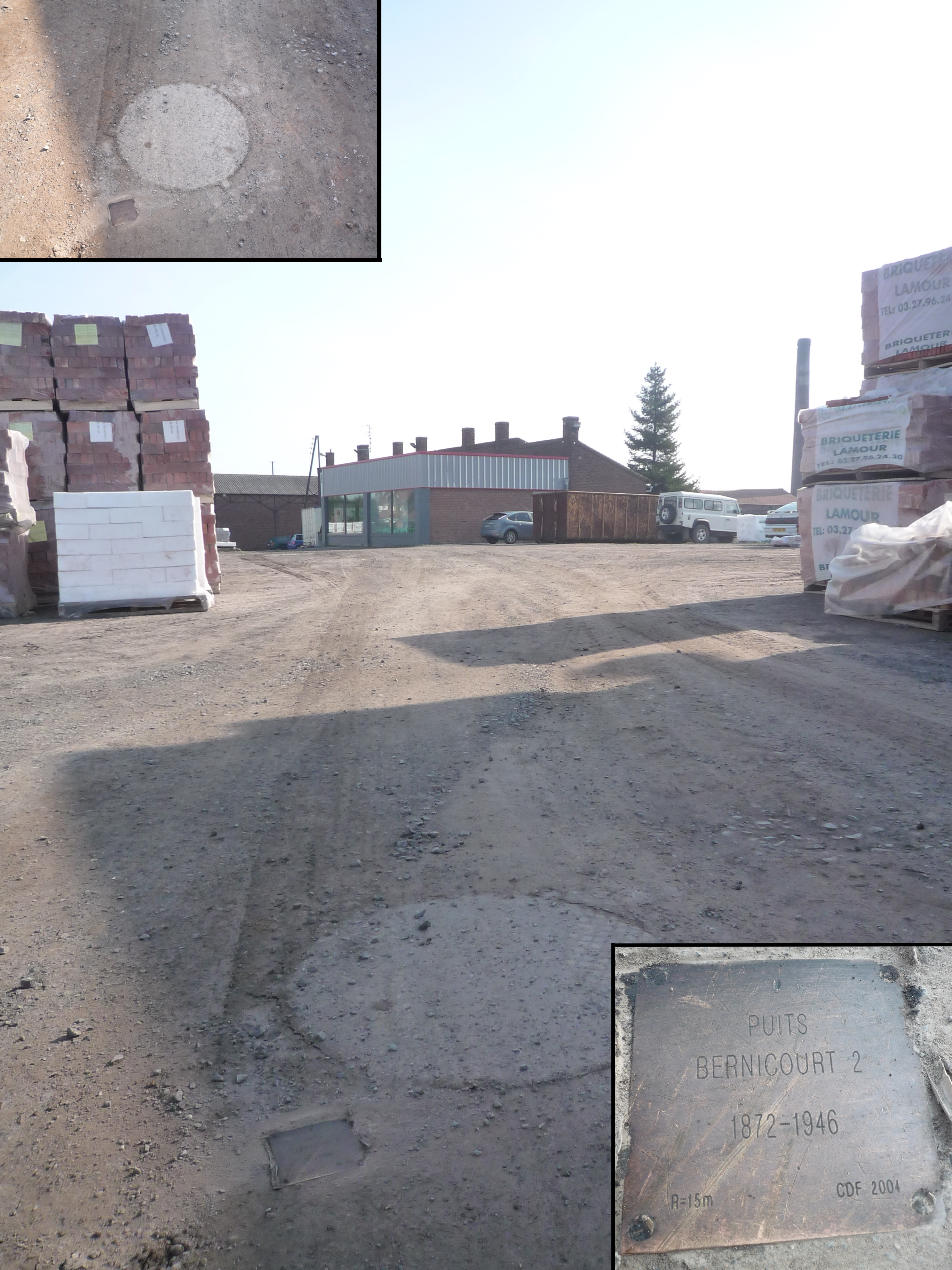 Pit Bernicourt #2 at Waziers, France.